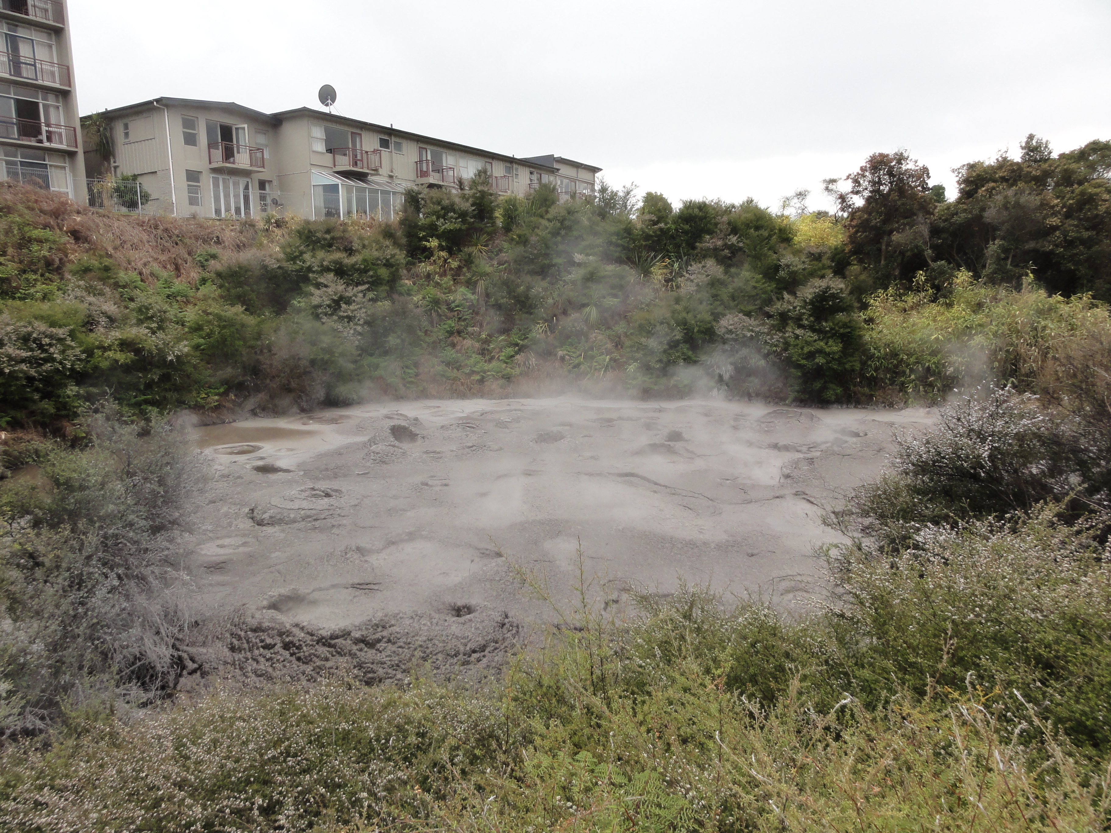 Ngamokaiakoko mud pool, Whararewarewa, Rotorua, New Zealand The building in Background is Hotel Quality Inn Geyserland